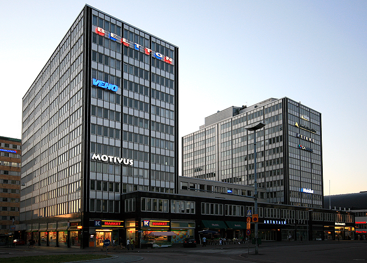 Autotalo, Salomonkatu 17, Helsinki, Finland. Built in 1959.